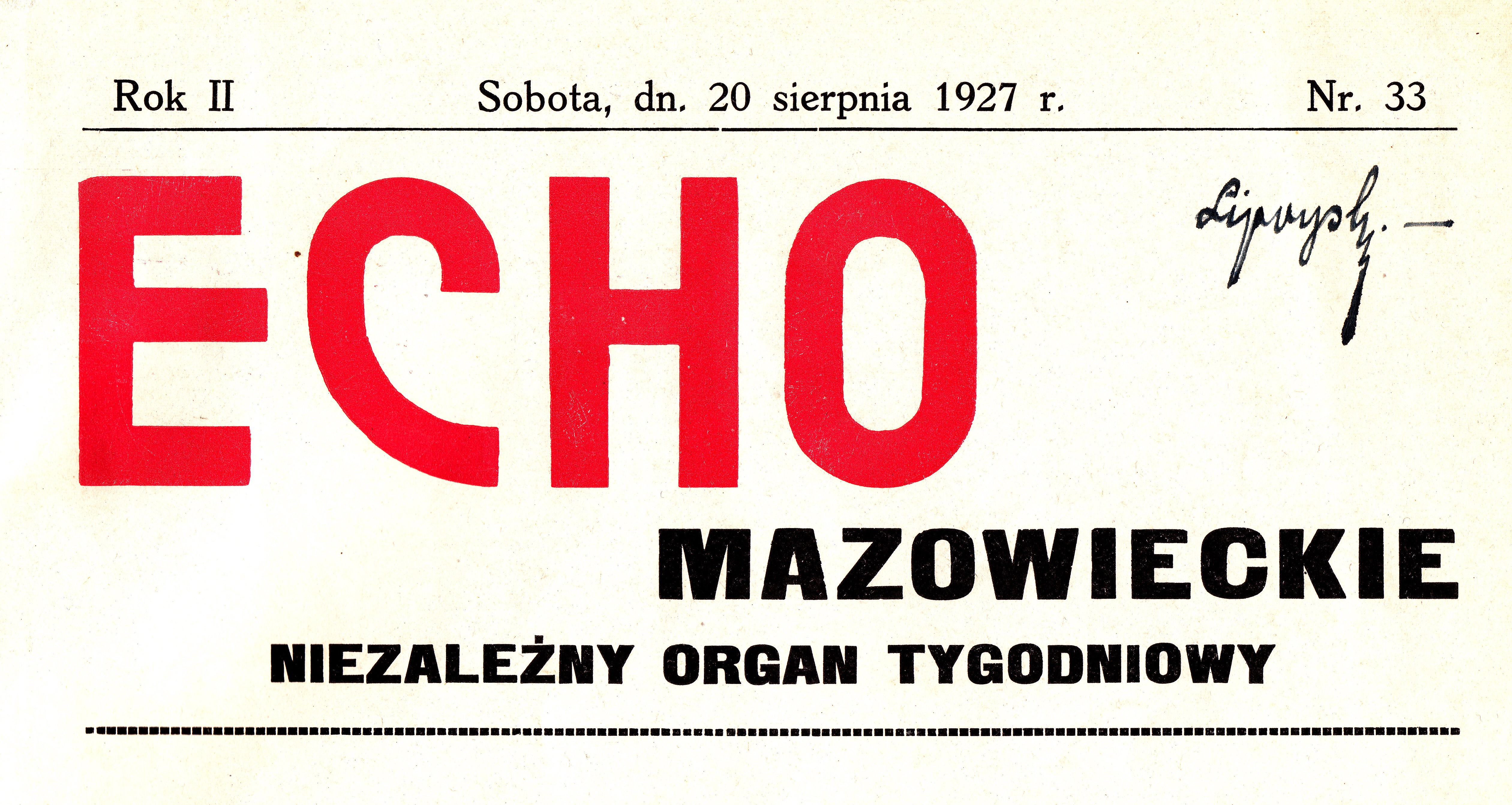 Echo Mazowieckie 1927